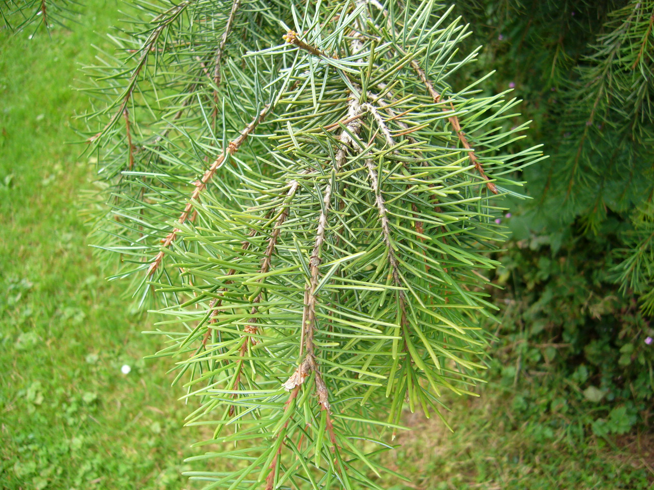 Picea breweriana: twigs